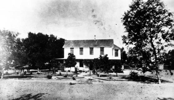 Isaac Newton Van Nuys' family home. Isaac Newton Van Nuys, a Napa county wheatman and principal stockholder in the Farm Homestead Association, believed the land in the San Fernando Valley was better suited for grain. After four years of using the land for grazing sheep and cattle, he planted 3,000 acres of wheat. At the end of the harvest, he shipped 3 cargos of grain to Liverpool. This was the begining of successful wheat farming in the Valley. In 1880, the Farm Homestead Association was reorganized as the Los Angeles Farm and Milling Company and went into the flour milling business. 6 x 4 in. black and white photograph.